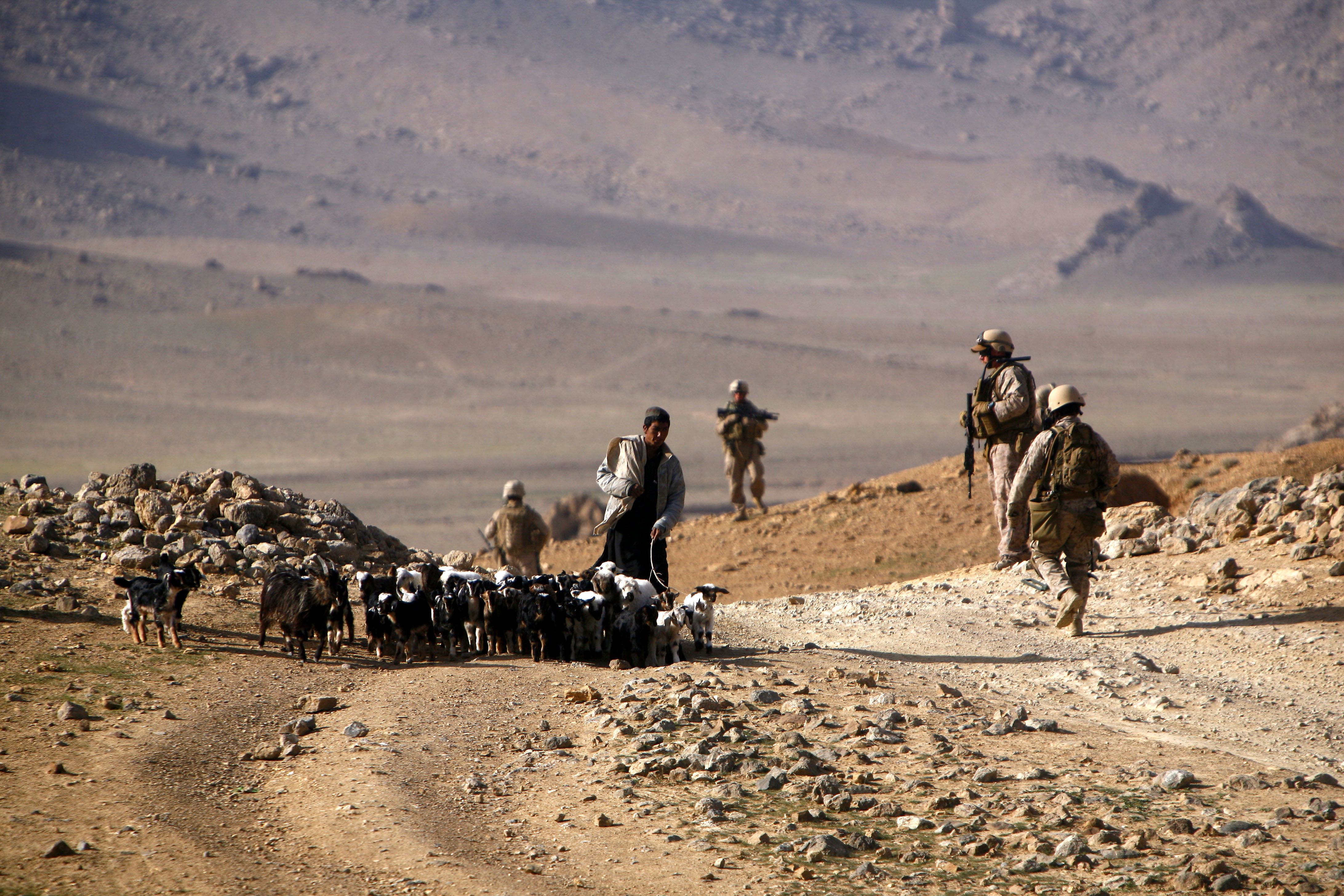 An Afghan boy walks his herd of goats along a road that Marines sweep for improvised explosive devices in Golestan, Farah Province, Islamic Republic of Afghanistan, March 12, 2009. The Marines with the second platoon of Company K, 3rd Battalion, 8th Marine Regiment (Reinforced), the ground combat element of Special Purpose Marine Air Ground Task Force - Afghanistan, serve in Golestan to conduct counterinsurgency operations, with a focus on training and mentoring the Afghan National Police. The Marines routinely sweep the roadways to provide the people safe passage through the city's valley.